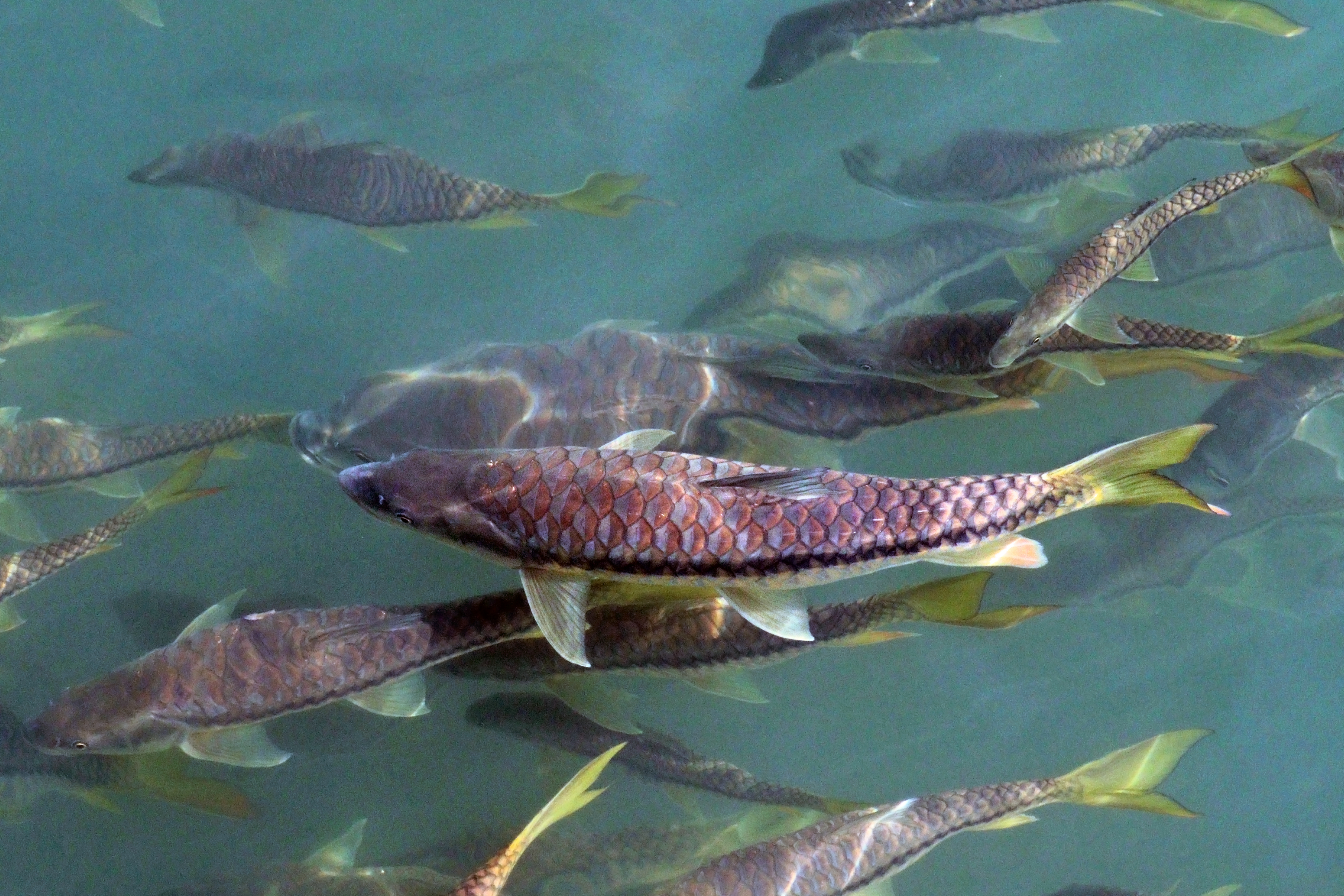 Golden mahseer (Tor putitora) Babai River, above Babai Bridge dam, Nepal